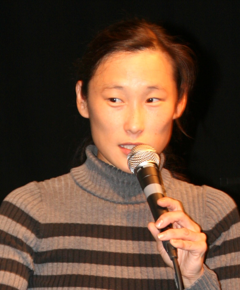 Astrid Trotzig, at Göteborg Book Fair.